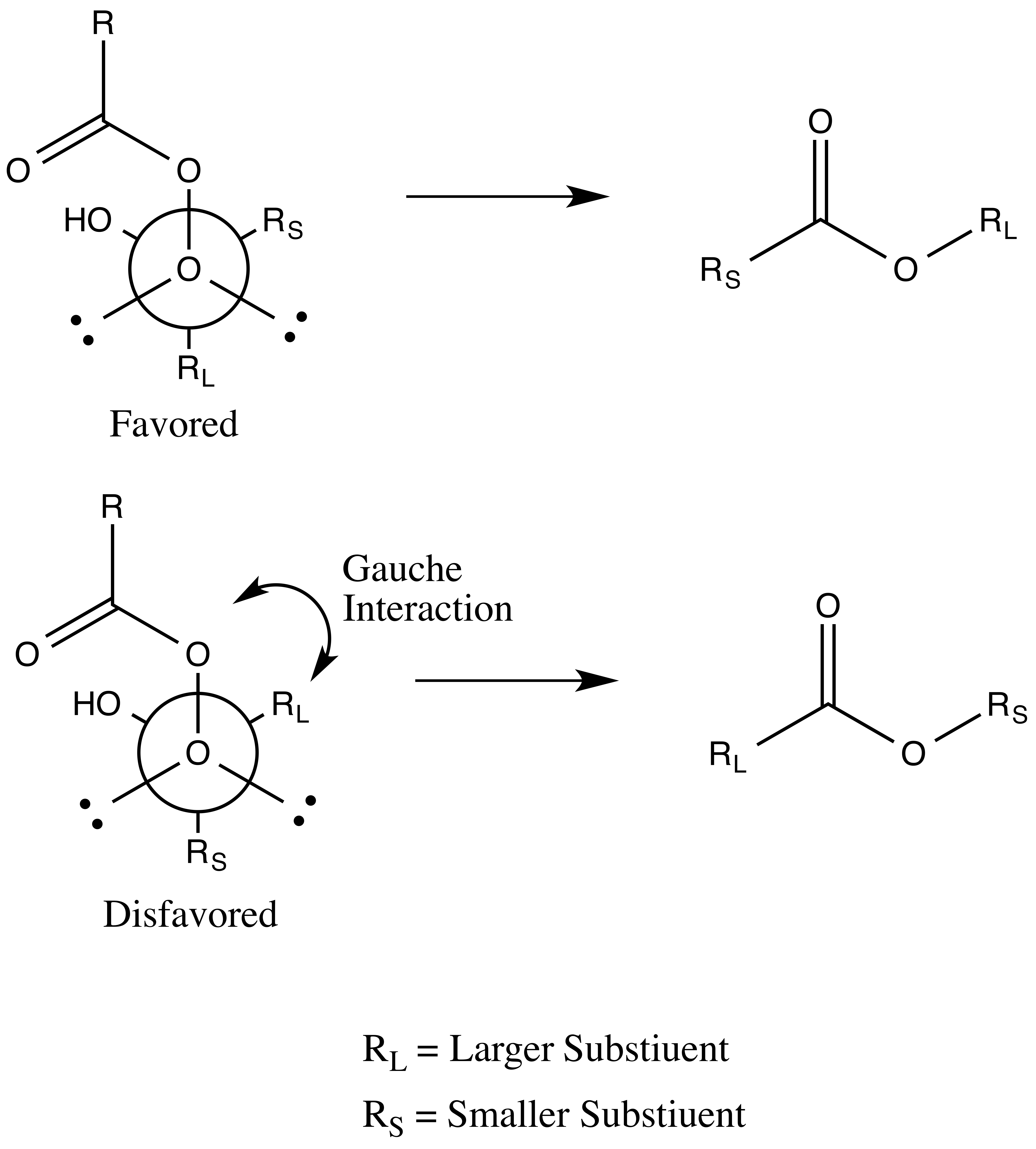 Stereoelectronics of Criegee Intermediate